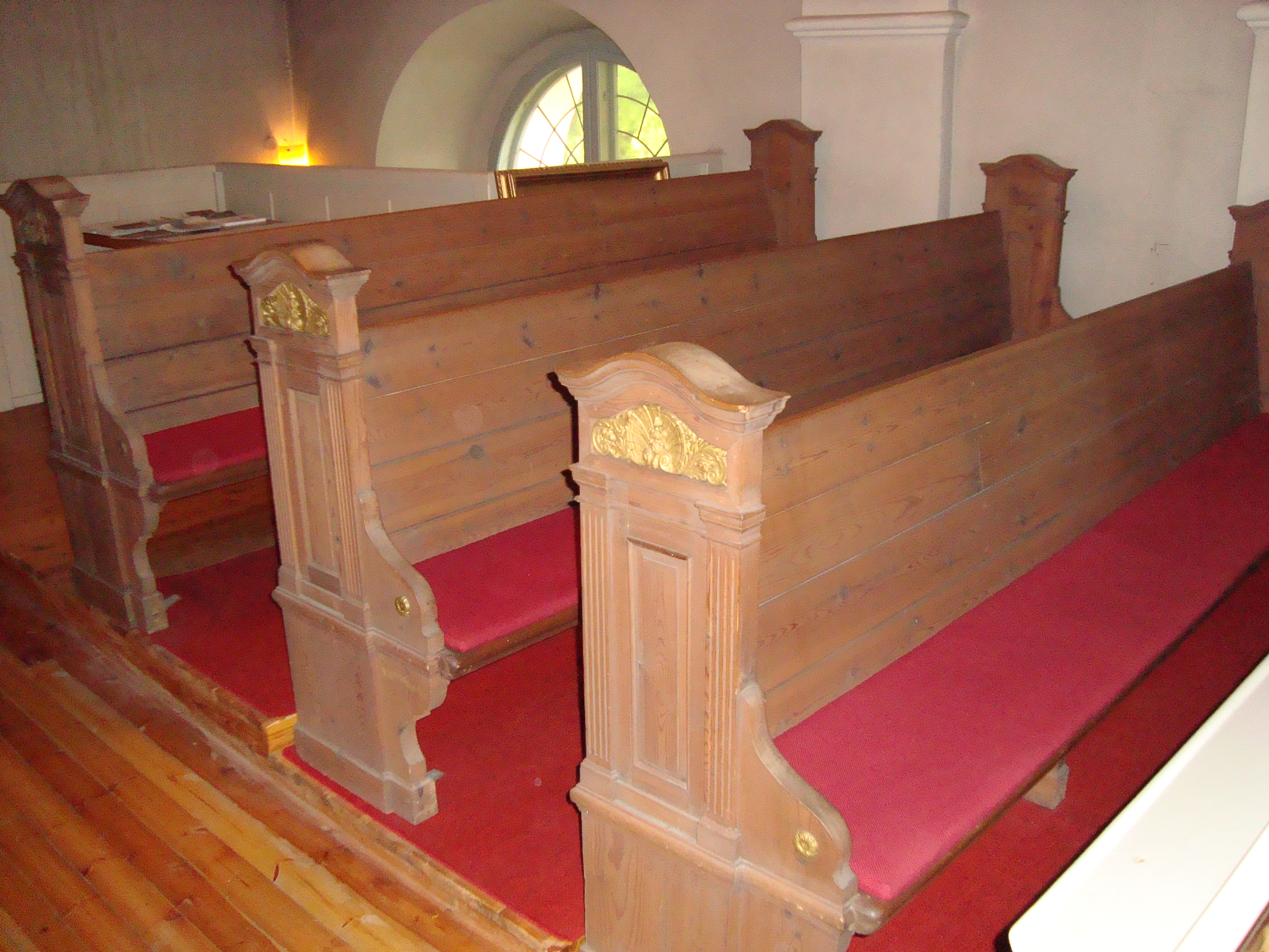 Church benches required 1670 to the old church of By, Avesta Municipality, Sweden